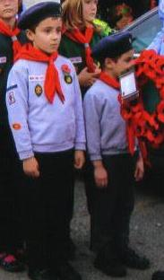 Two Beaver Scouts of the Baden-Powell Scouts' Association taking part in a Remembrance Parade.